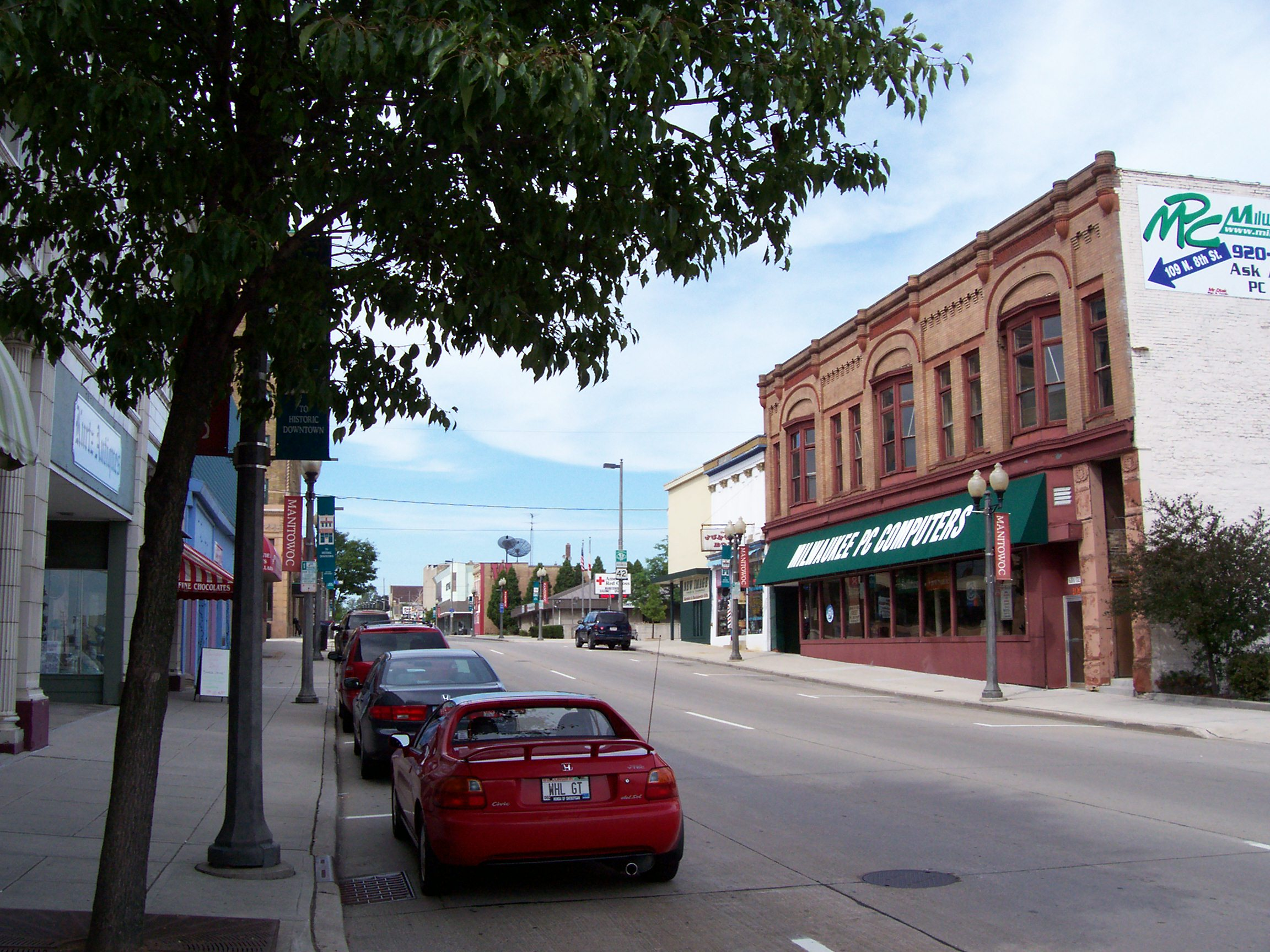 U.S. Route 10 in downtown Manitowoc, Wisconsin. This image was taken August 27, 2006 by User:Royalbroil Category:Images of Wisconsin